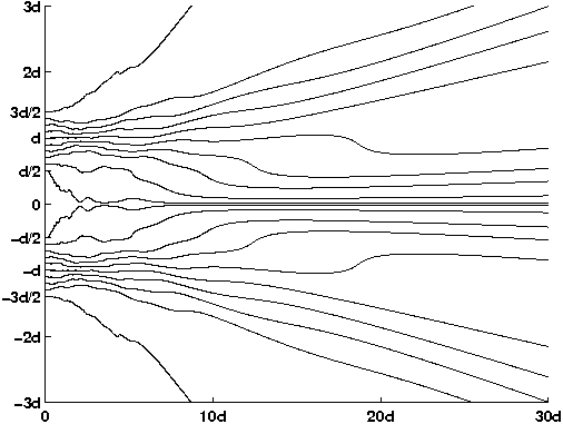 20 energy flow lines behind the two slits.